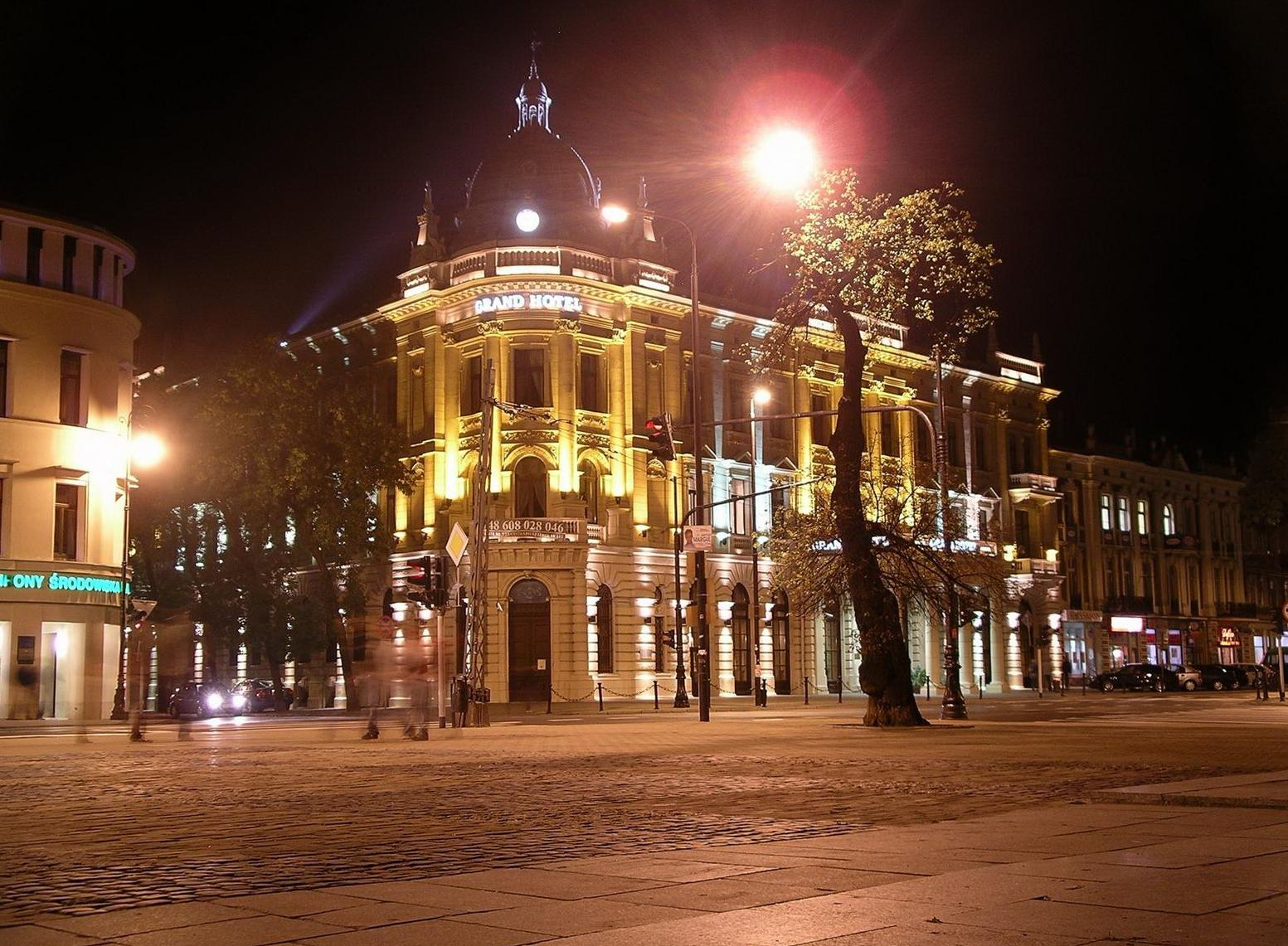 The "Lublinianka" Grand Hotel in Lublin